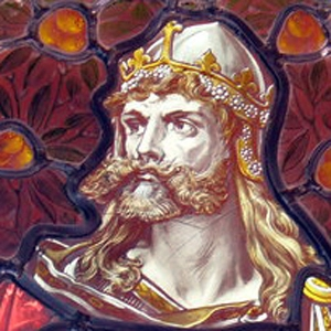 Norvegian king Harald Hardrada (Harald III.)